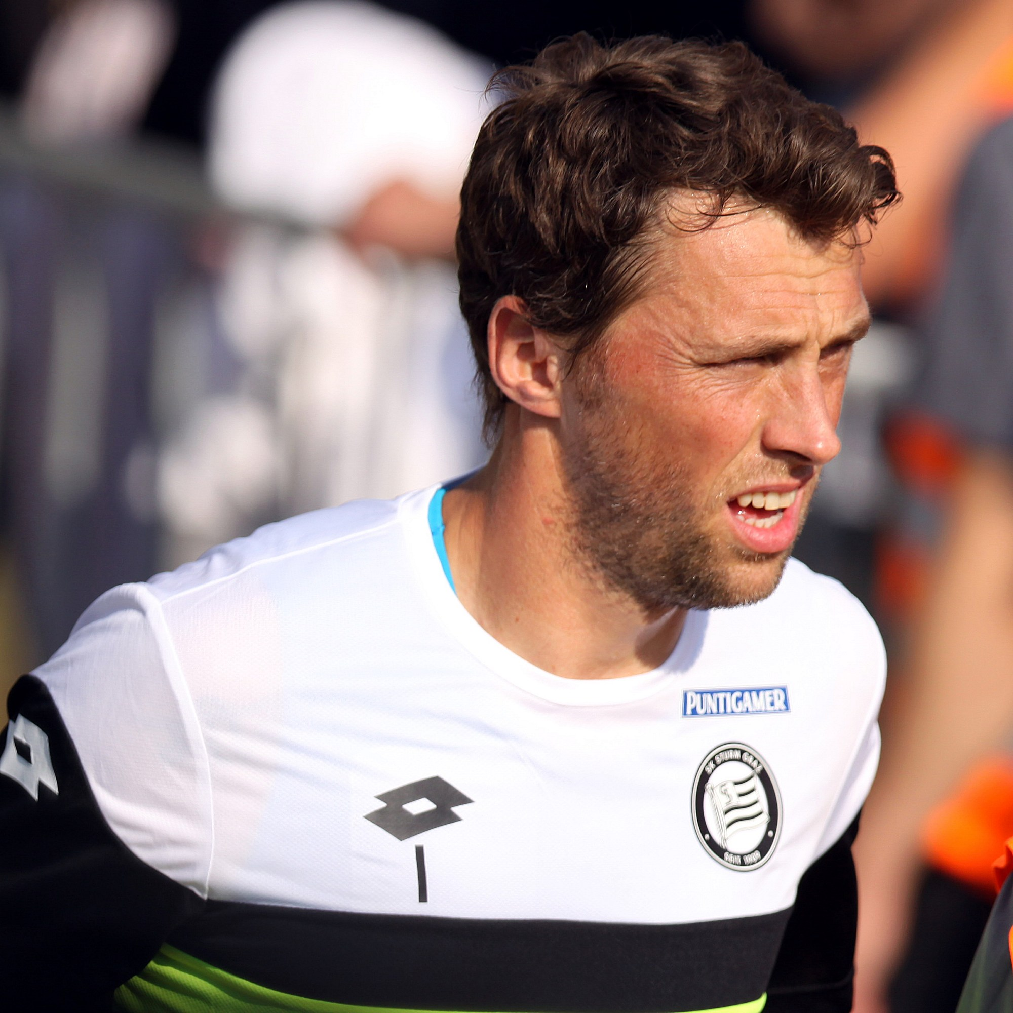 Match of the Austrian Football Bundesliga – SV Mattersburg (green shirts) vs. SK Sturm Graz (white shirts) on 2015-09-13 in Pappelstadion, Mattersburg – The photo shows goal keeper Christian Gratzei (SK Sturm Graz)